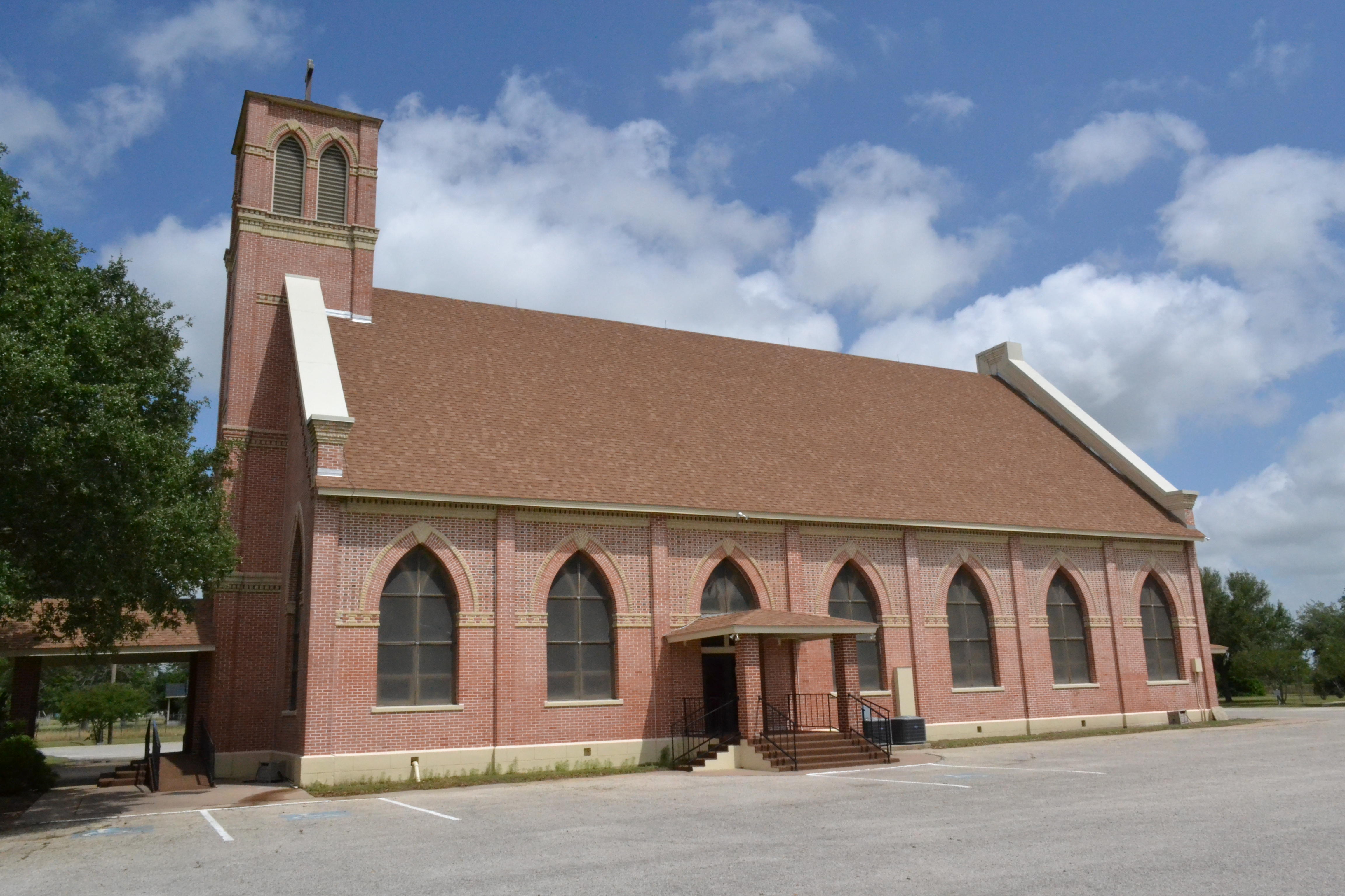 Church of the Blessed Virgin Mary, the Queen of Peace, Sweet Home, Texas. Listed on the National Register of Historic Places.